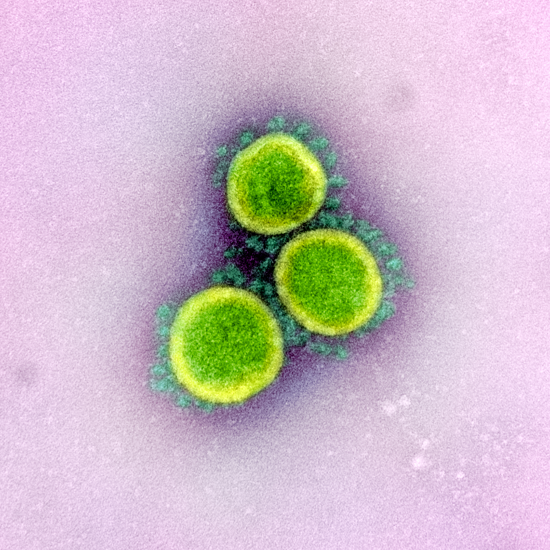 Transmission electron micrograph of SARS-CoV-2 virus particles, isolated from a patient. Image captured and color-enhanced at the NIAID Integrated Research Facility (IRF) in Fort Detrick, Maryland. Credit: NIAID